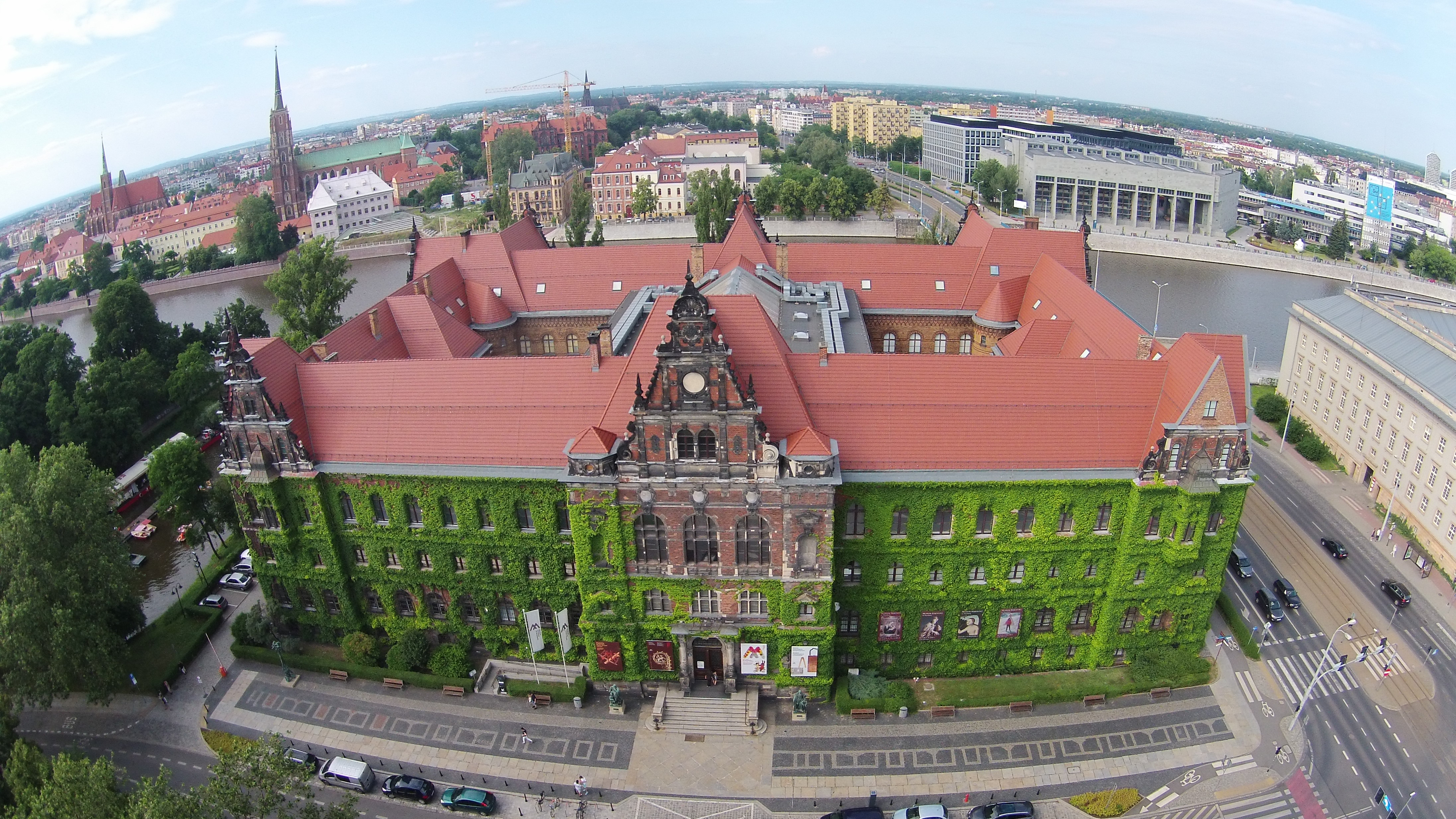 Building of the National Museum in Wrocław